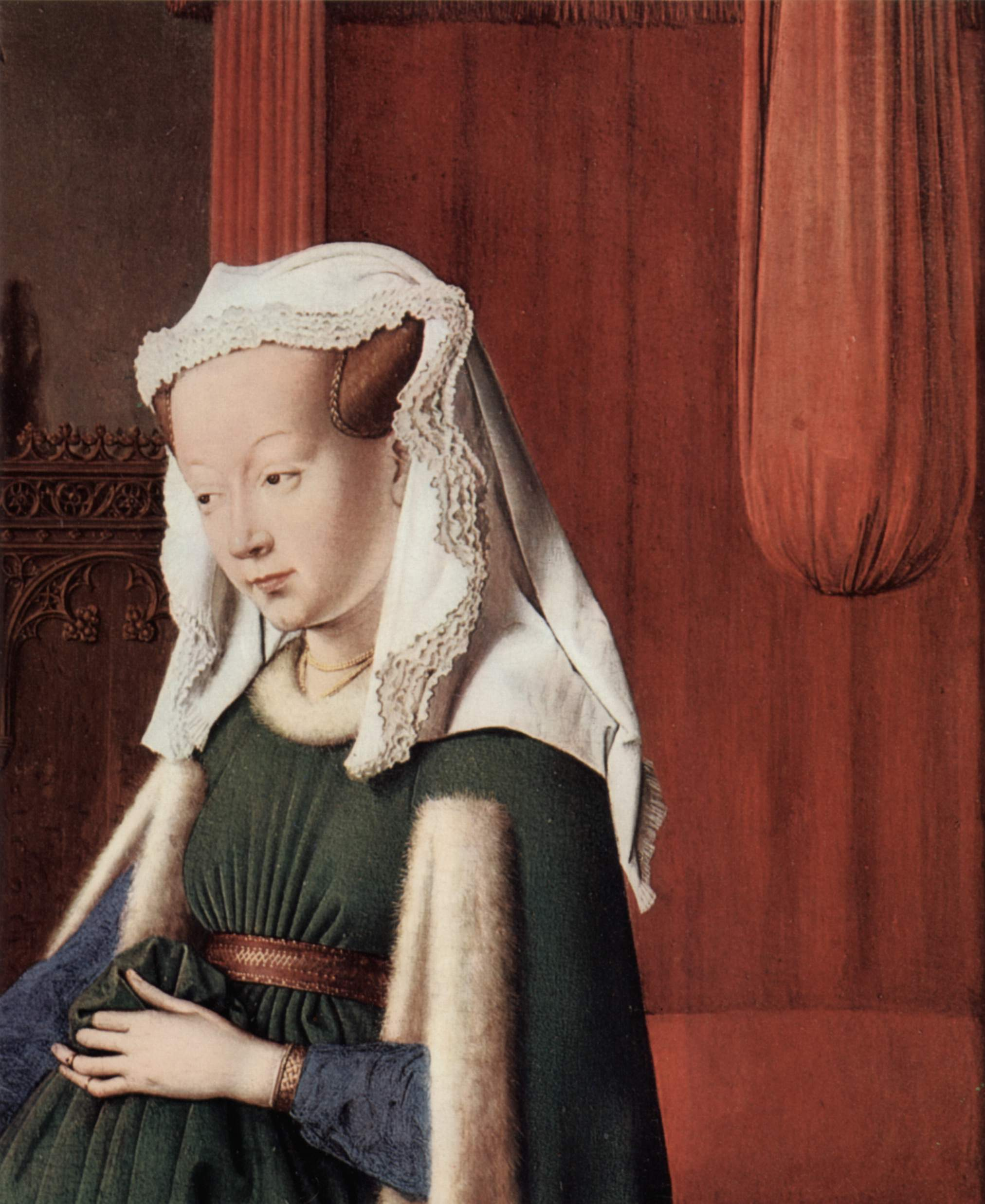 Crop of the painting The Arnolfini Portrait